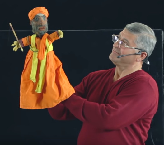 An actor with a bibabo doll